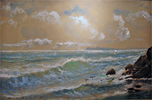 Seascape